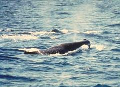 Public Domain image taken from National Marine Mammal Laboratory - National Oceanic and Atmospheric Administration (driect link) ja:??:Sperm whale.jpg